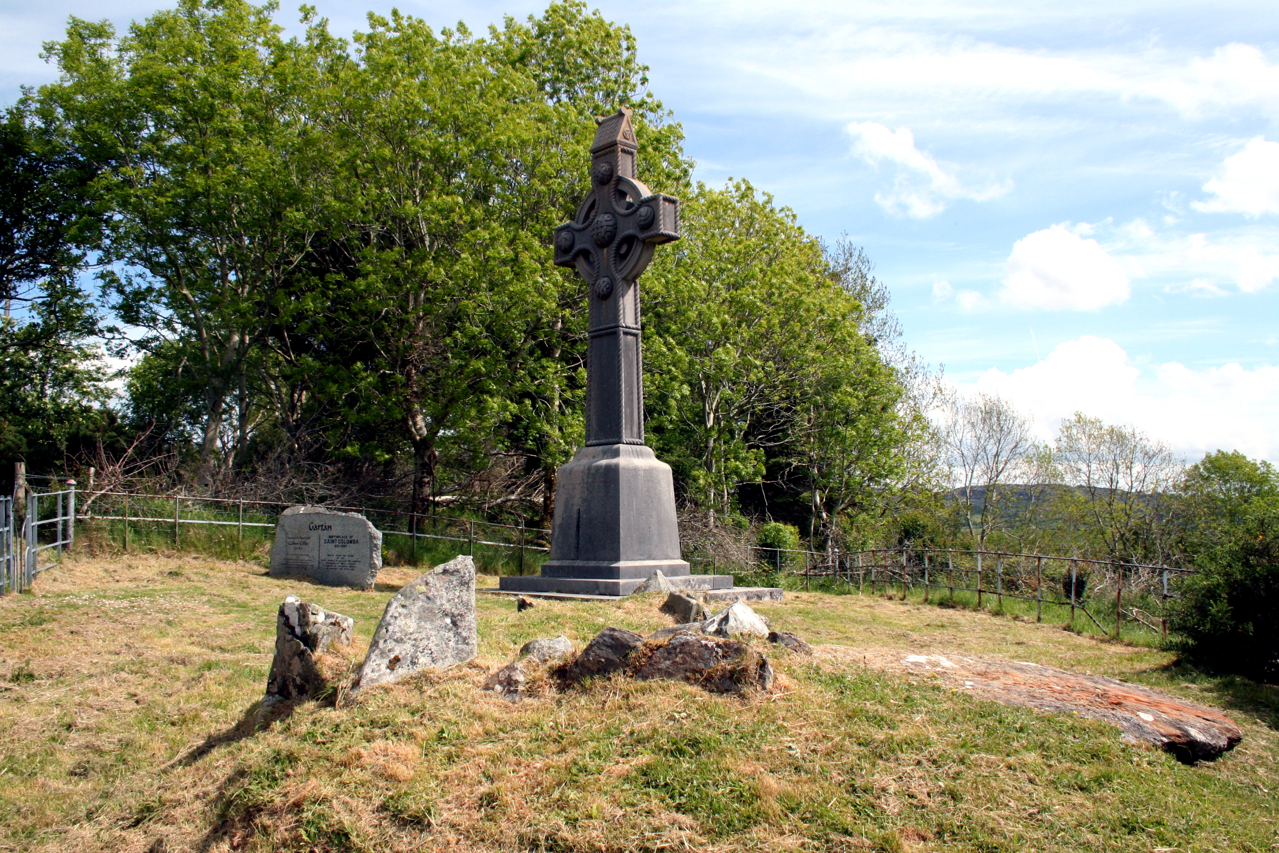 St. Columbkille's birthplace